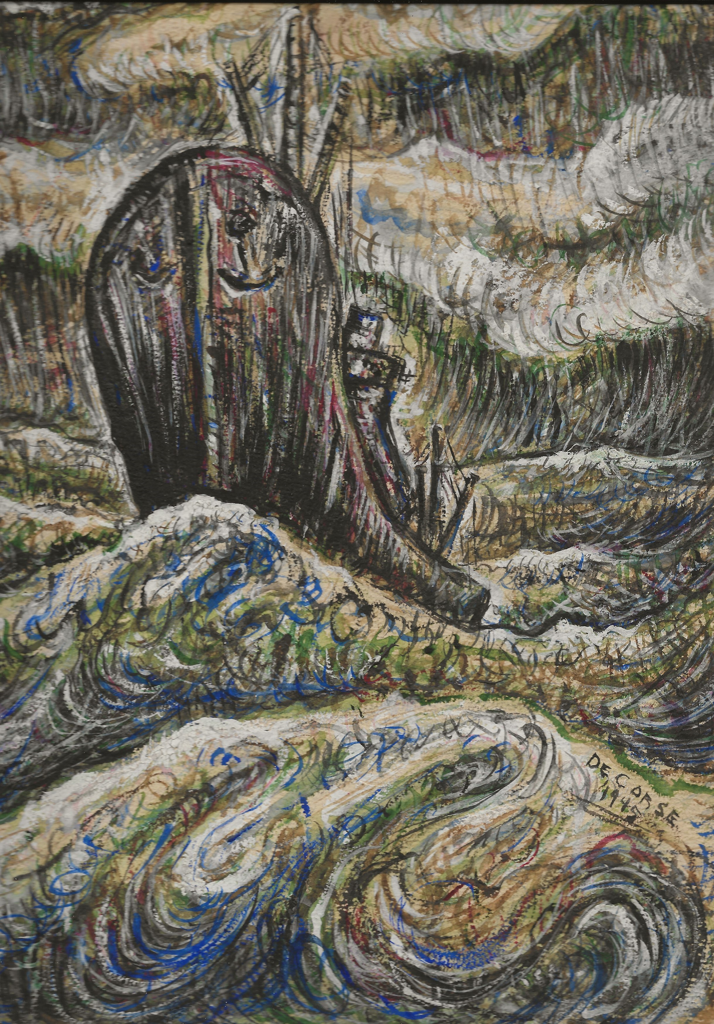 Detail of ship painting by Tony DeCorse 1945 illustrating work inspired by his service in the Merchant Marines.